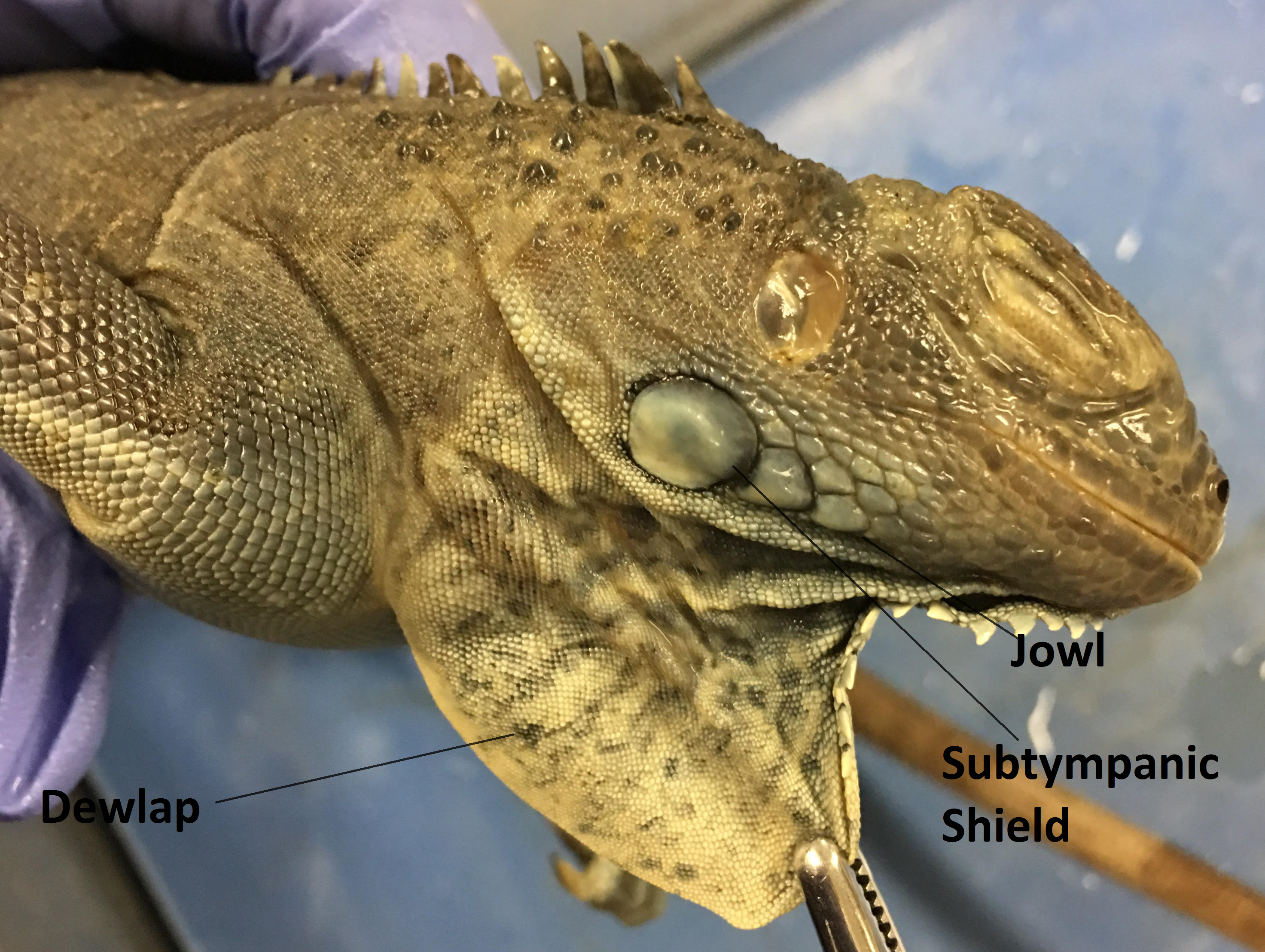 The above picture shows an Iguana from Pacific Lutheran University with an extended dewlap labeled.